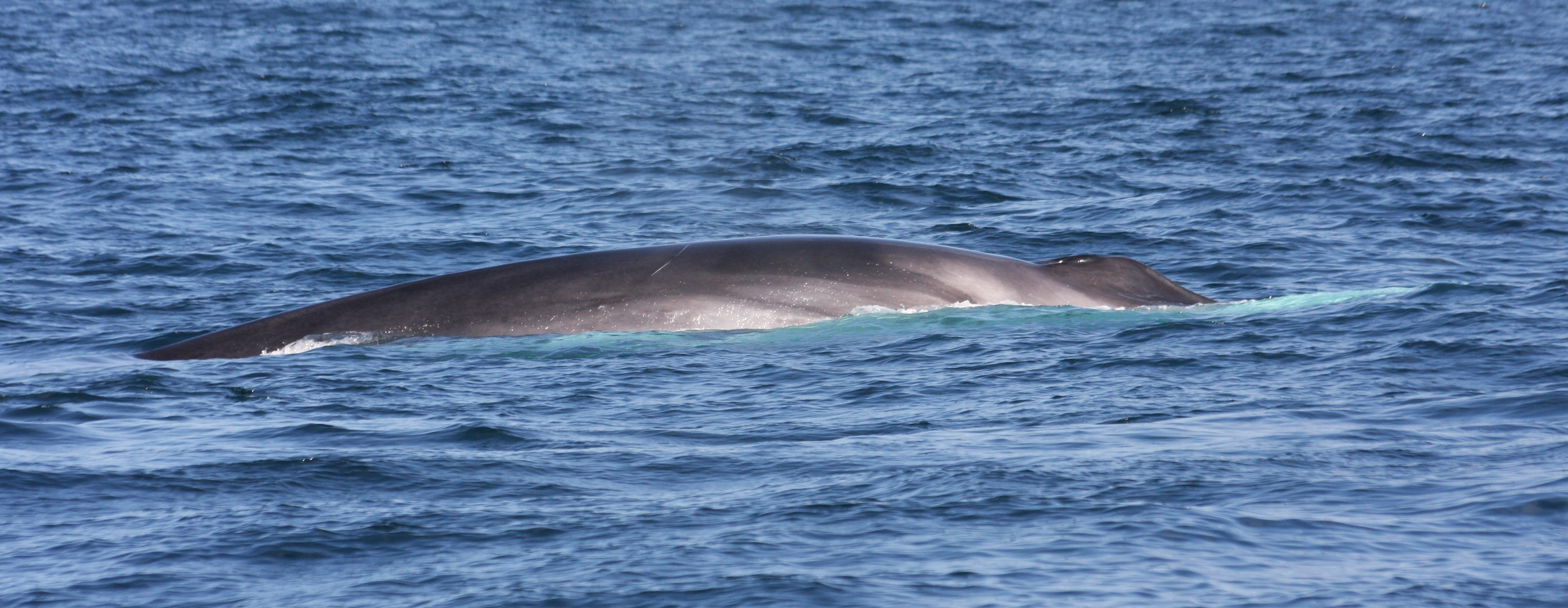 Fin whale showing colouring on right side